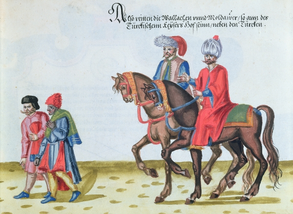 Wallachian and Moldavian noblemen (gouache on paper)